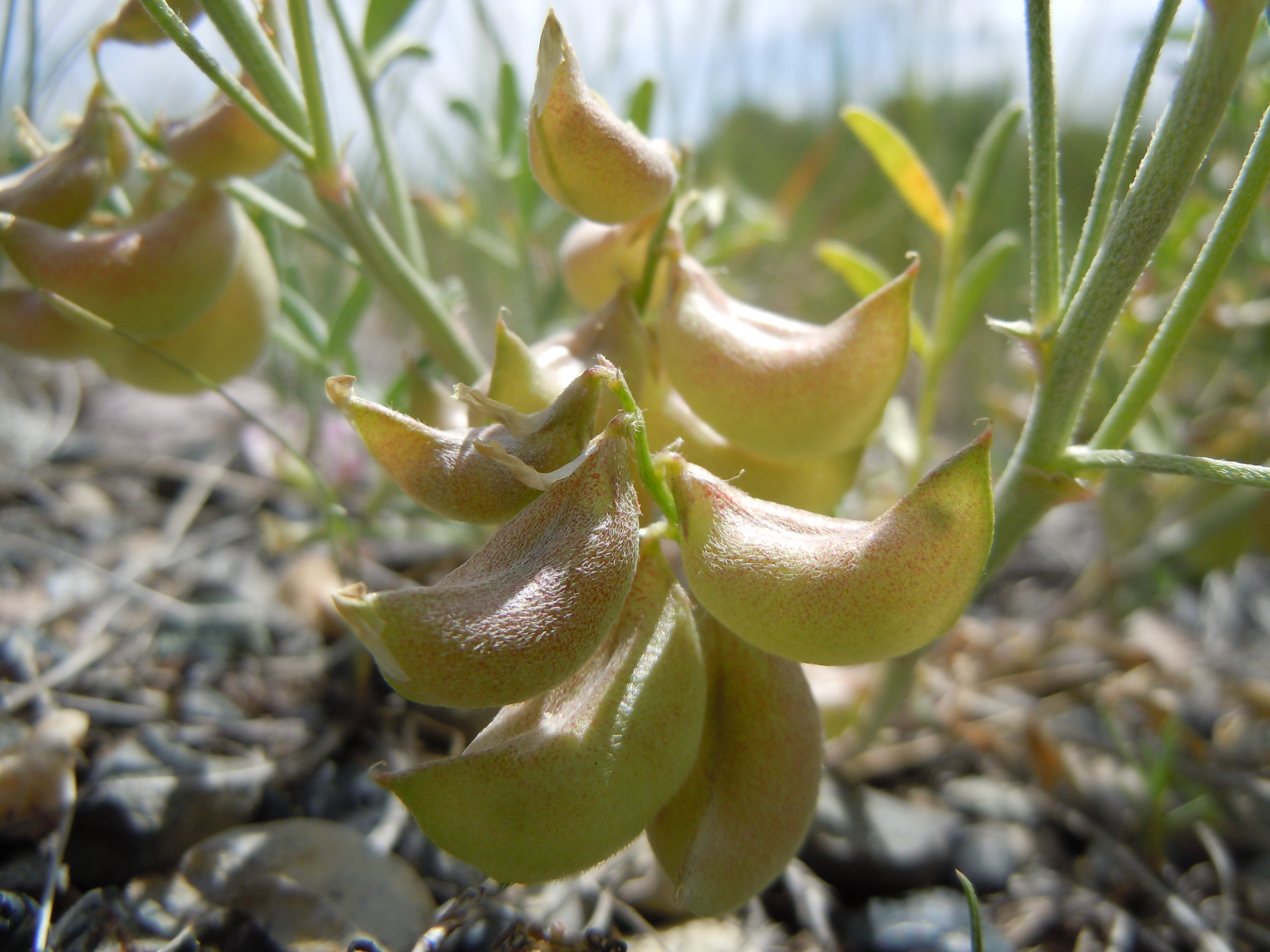 Geyer's milkvetch is found throughout the INL area but seems most common in disturbed areas and may be most abundant along roads.